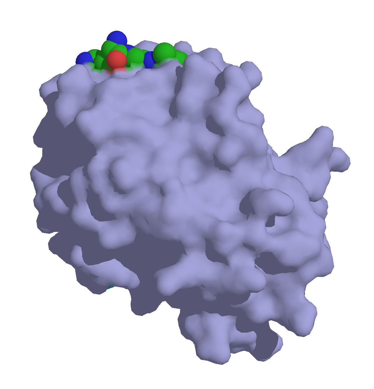 3d surface model of prostata-specific antigen (PSA) with substrate from PDB 2ZCK. Ref.: R.Ménez et al. (2008). Crystal structure of a ternary complex between human prostate-specific antigen, its substrate acyl intermediate and an activating antibody.. J Mol Biol, 376, 1021-1033. PMID 18187150 [